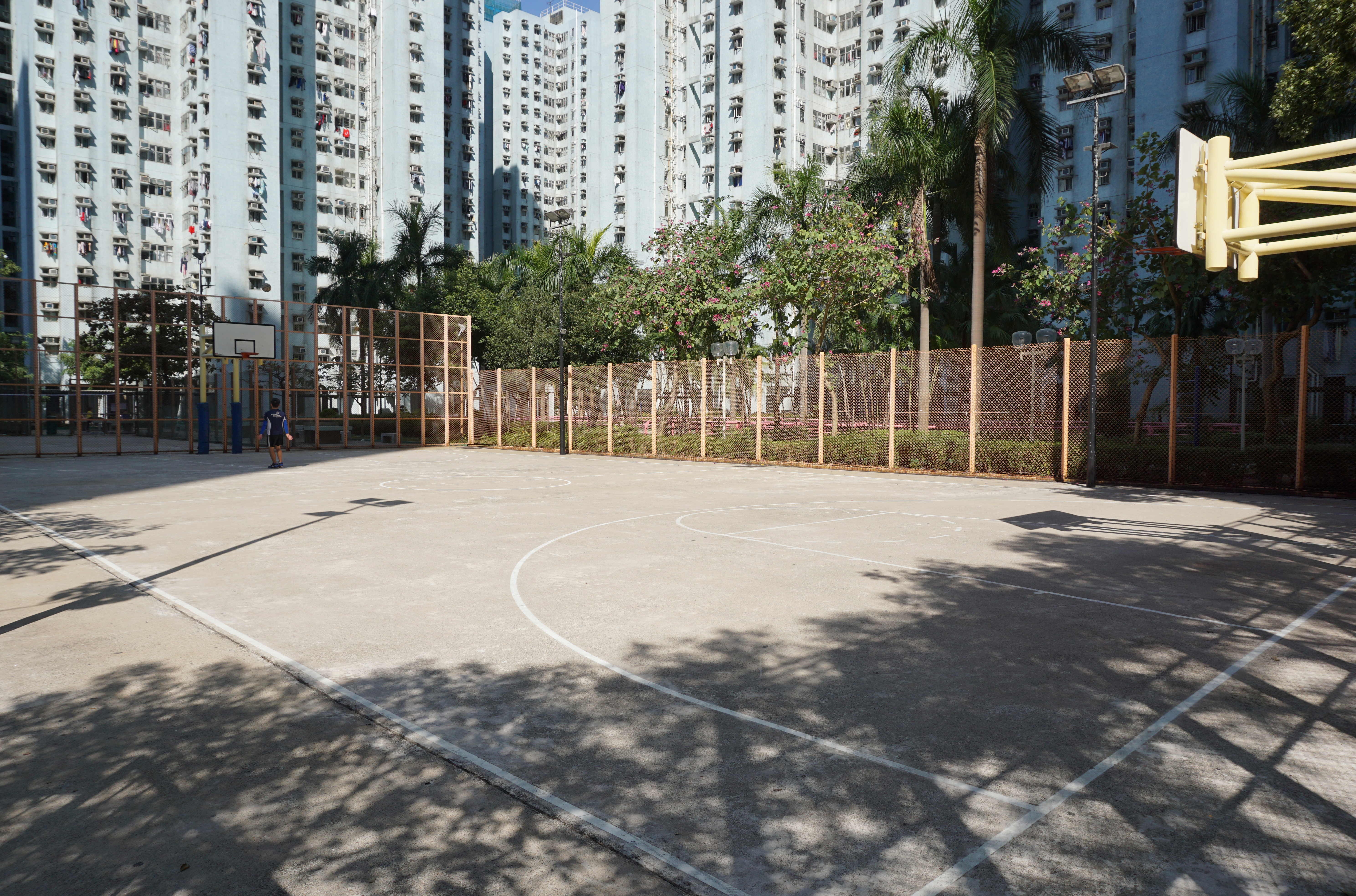 Yuet Wu Villa in Tuen Mun, Hong Kong.